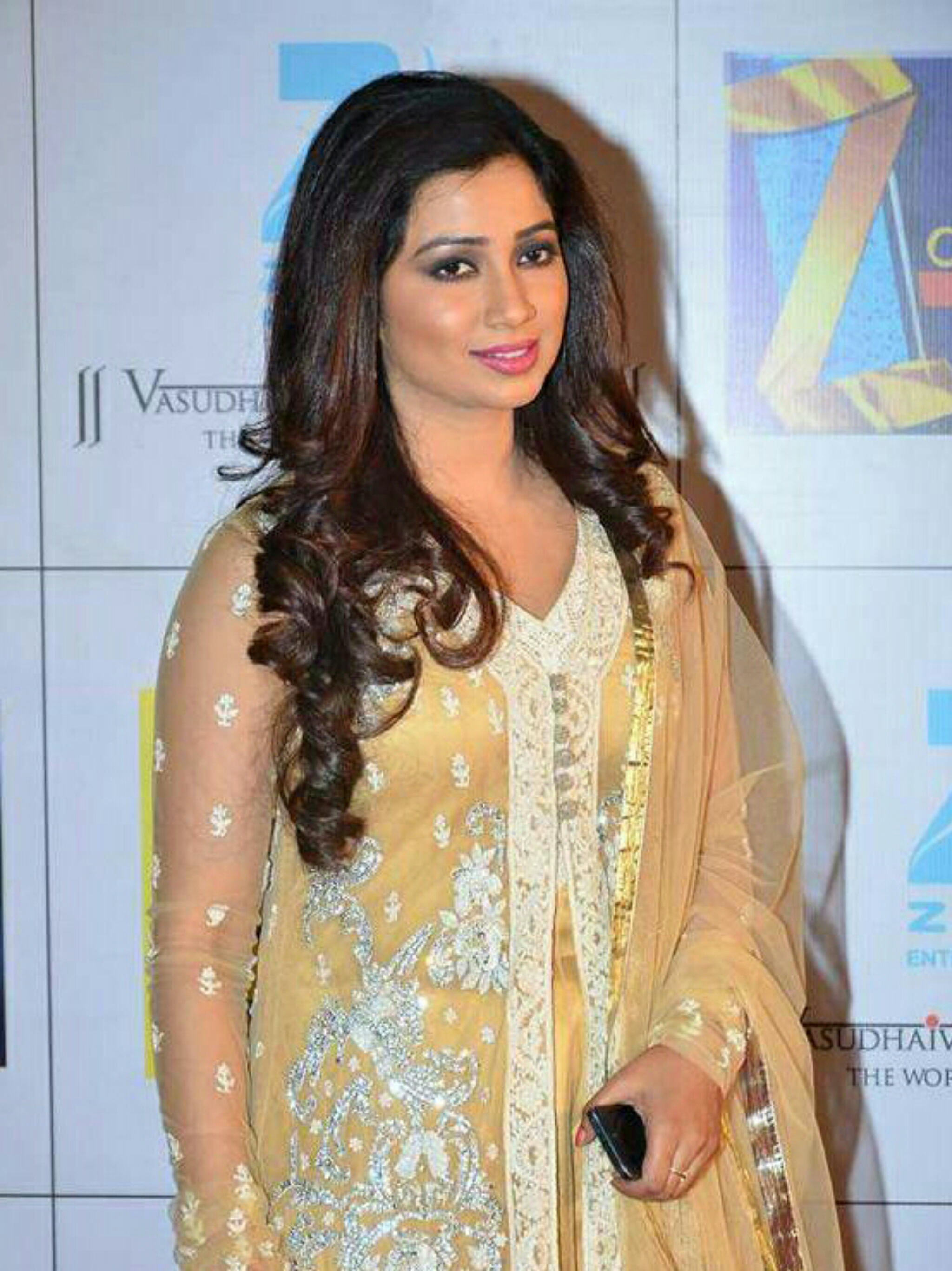 Playback singer Shreya Ghoshal at the red carpet of Zee Cine Awards 2014